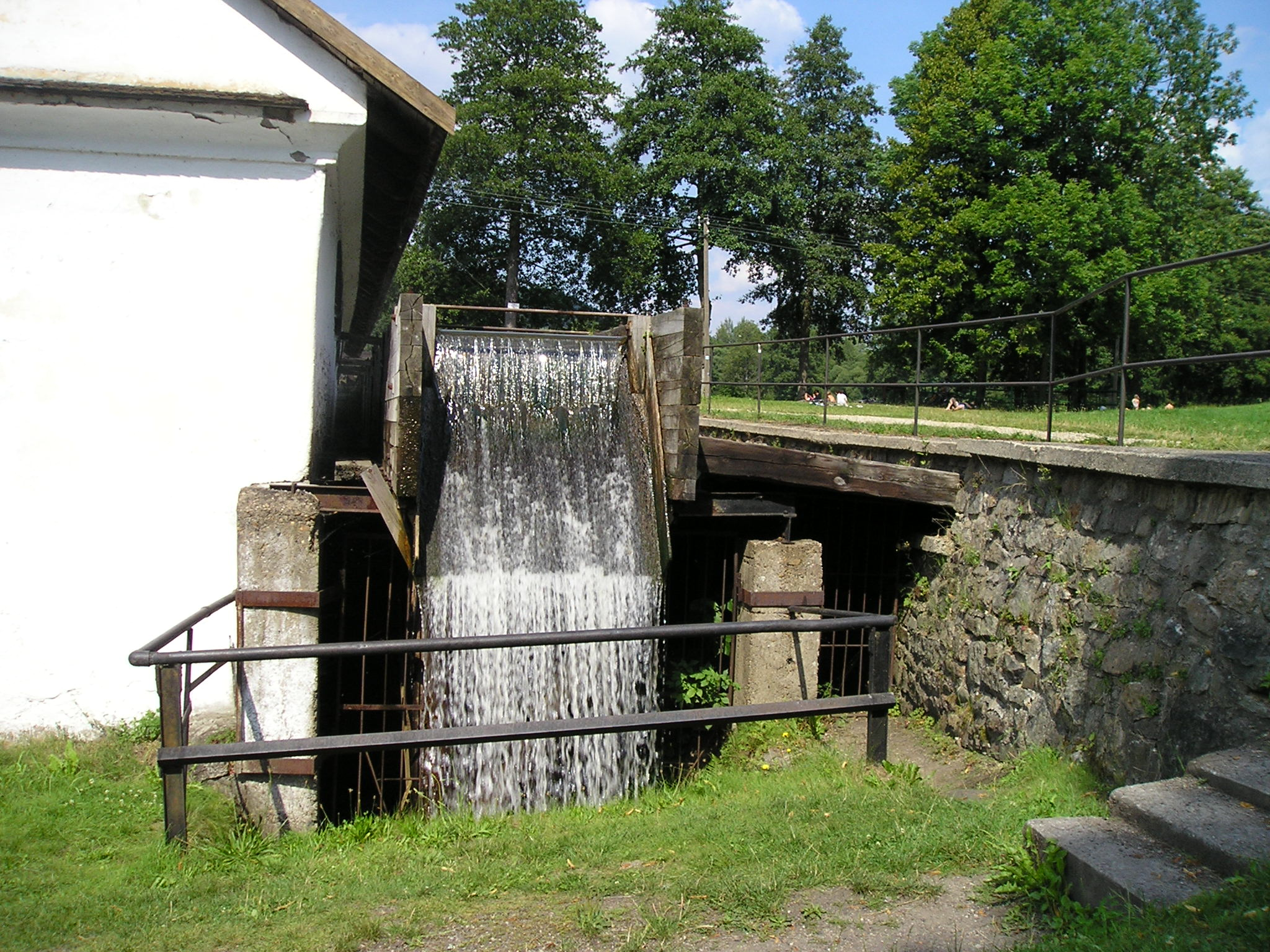 Historical Wasserhammer in the Czech Republic